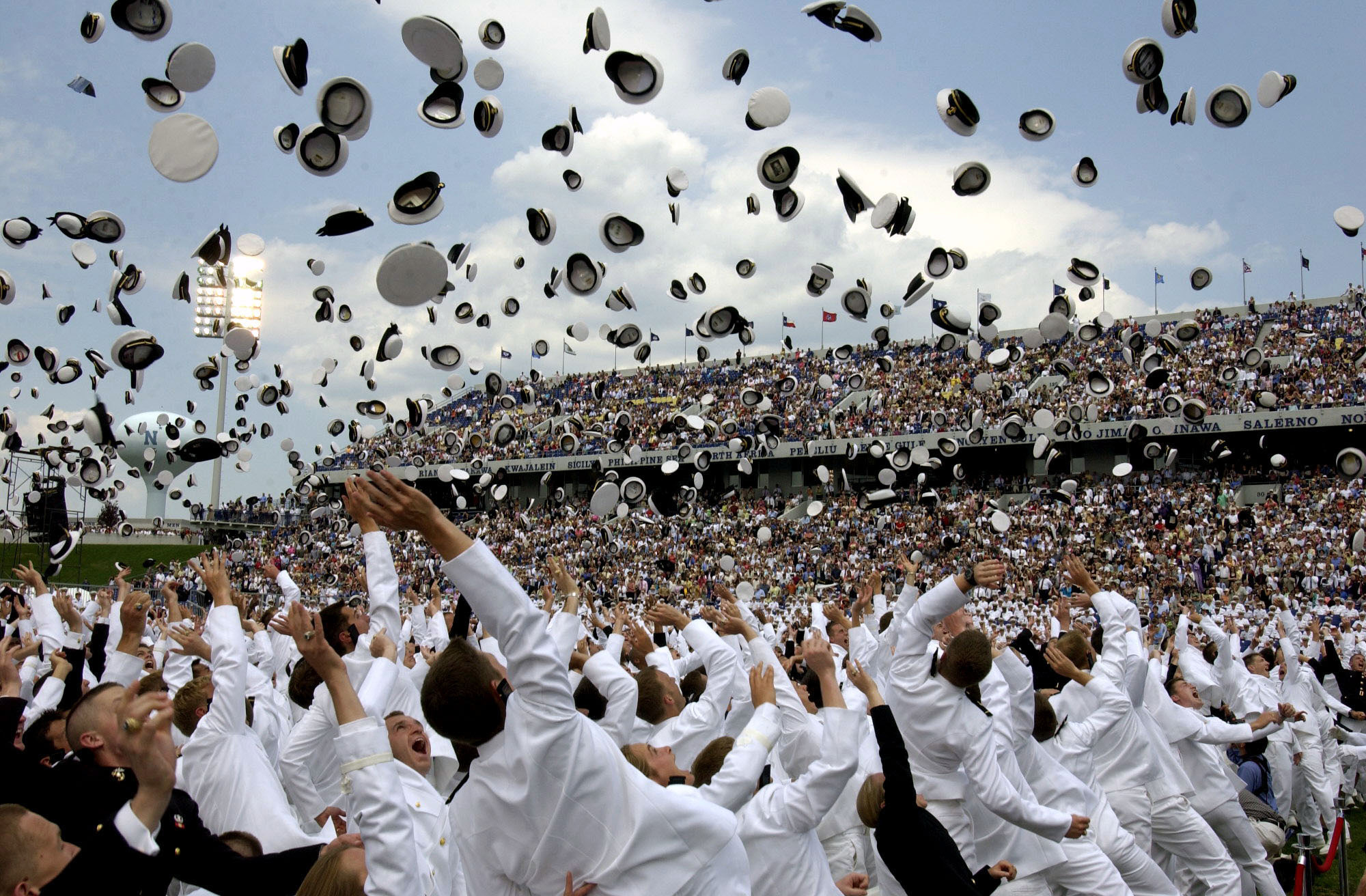 Newly commissioned Navy officers celebrate by throwing their Midshipmen covers into the air as part of the U.S. Naval Academy class of 2005 graduation and commissioning ceremony in Annapolis, Md., on May 27, 2005. The hat toss originated at the Naval Academy in 1912 and has become a symbolic and visual end to the four-year program. President George W. Bush delivered the commencement address and personally greeted each of the 976 graduates during the ceremony. The men and women of the graduating class were sworn into the Navy as ensigns or into the Marine Corps as 2nd lieutenants.